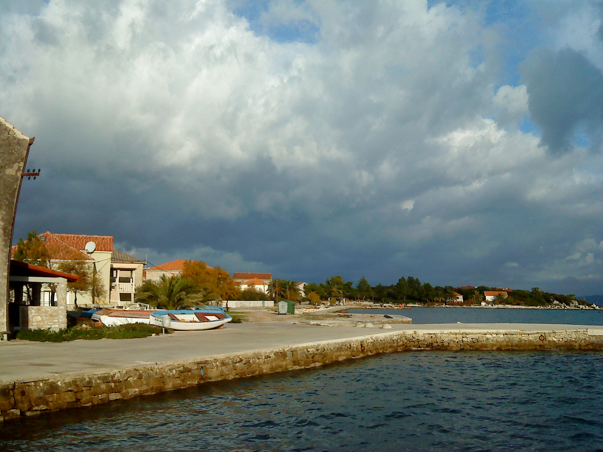 Village of Sreser